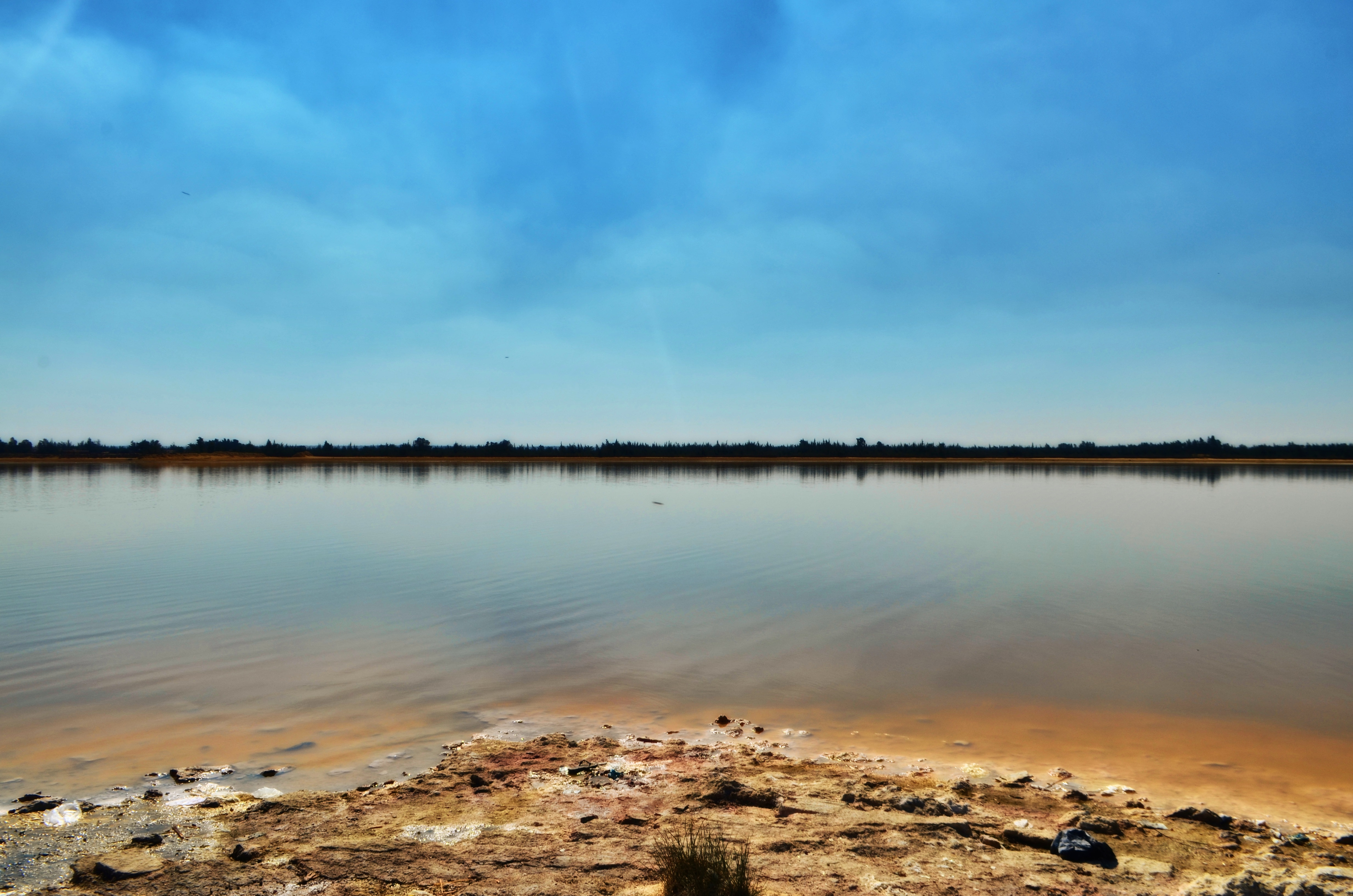 Naba' El-Hamra Lake, Wadi El Natroun, Egypt